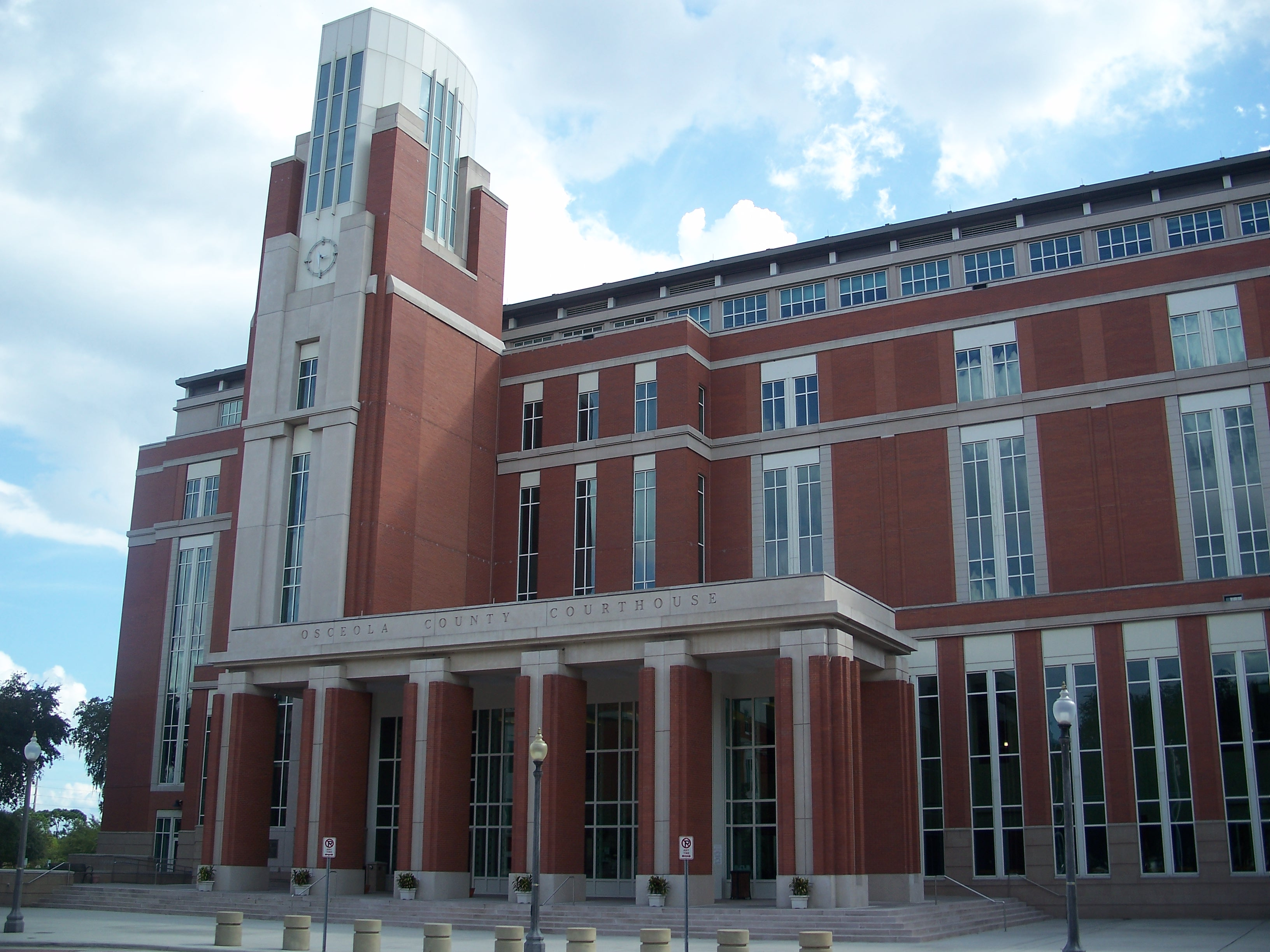 Kissimmee, Florida: Modern county courthouse, across the street from the old historic one